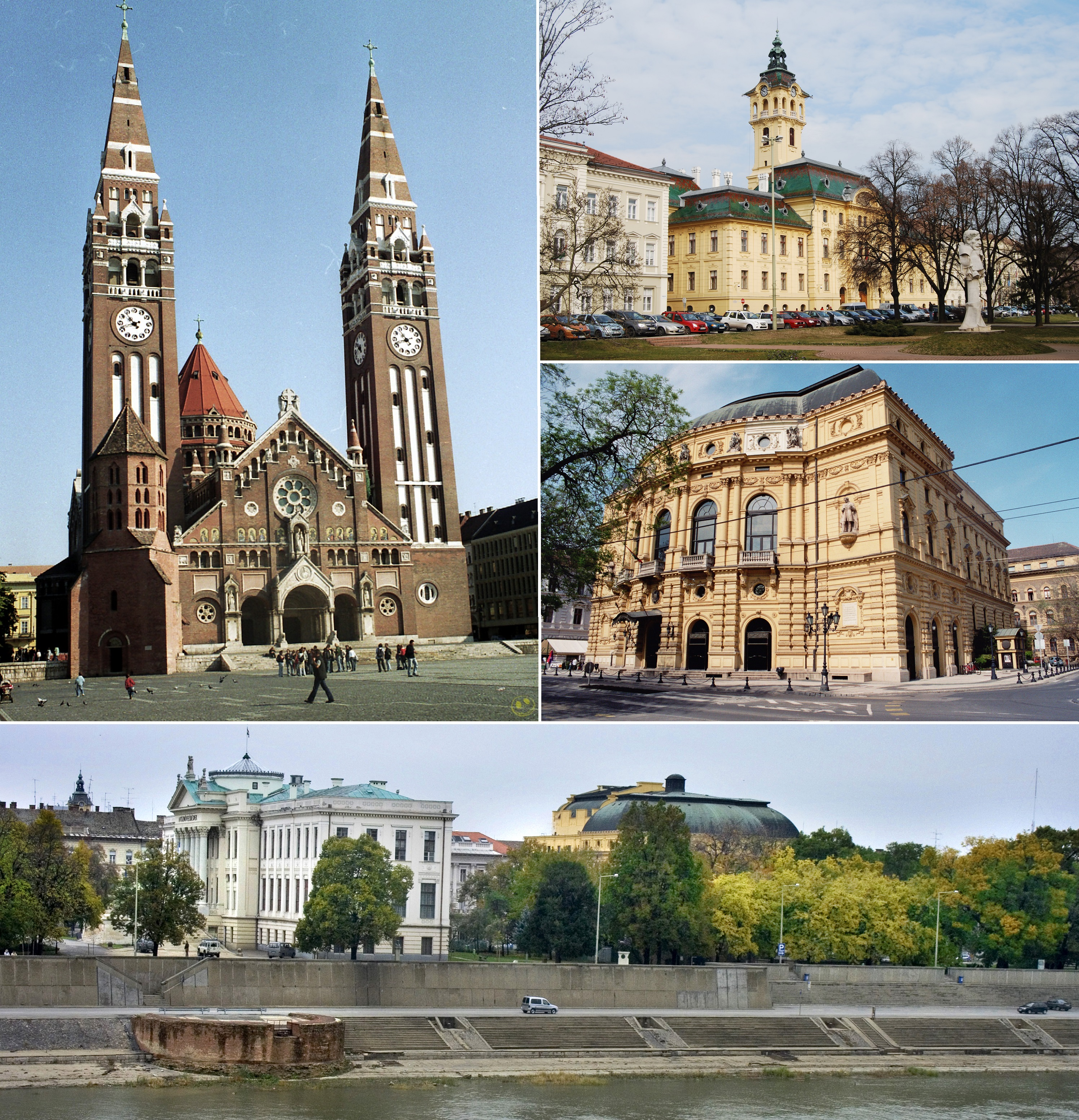 Szeged montage